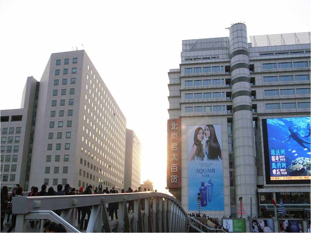 西单阳光灿烂 / Sunshine Xidan. Location: Beijing Location: Beijing.